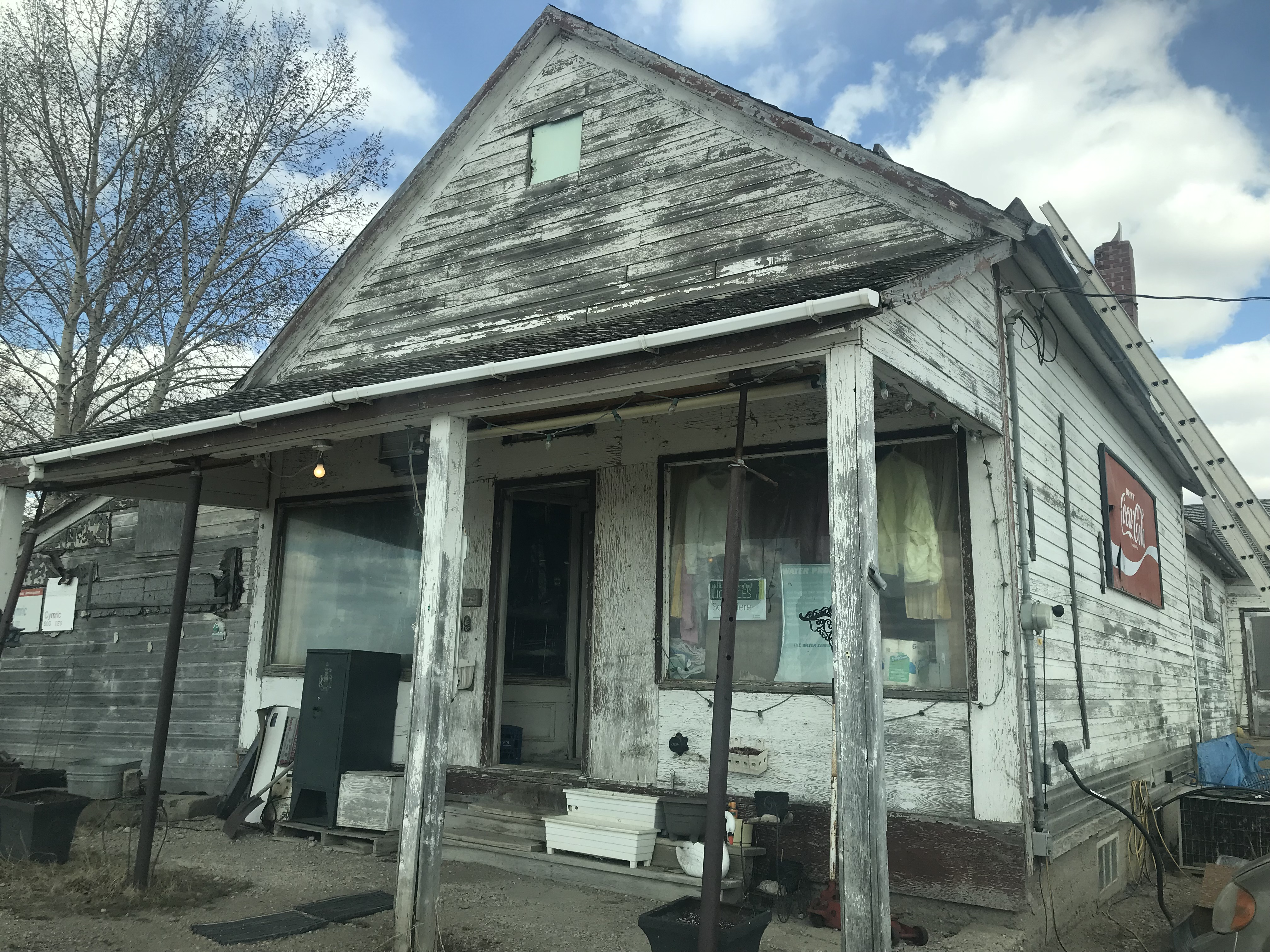 image of the general store in Cymric Saskatchewan on Highway 20